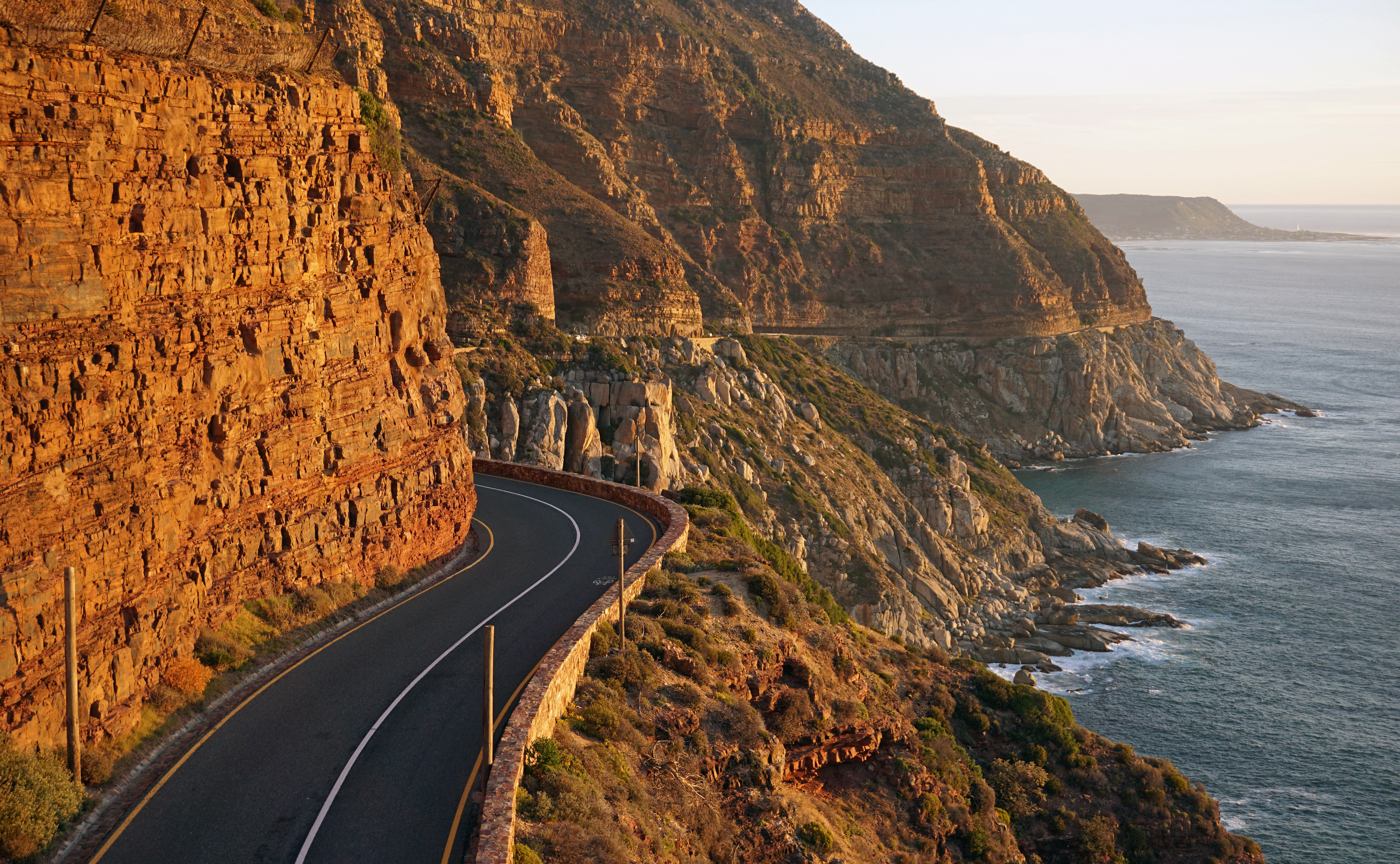 Chapman's Peak Drive, a scenic road between Cape Town and Hout Bay carved out of a cliff-face between Chapman's Peak on the Cape Peninsular and the Atlantic Ocean.